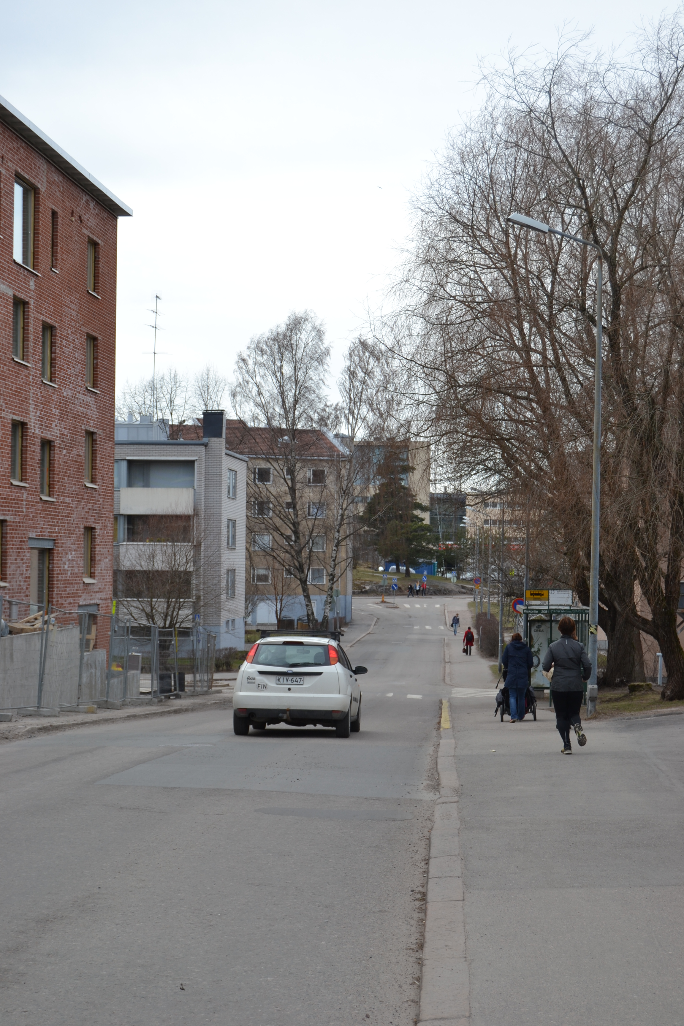 Tenholantie, a street in Ruskeasuo, Helsinki.